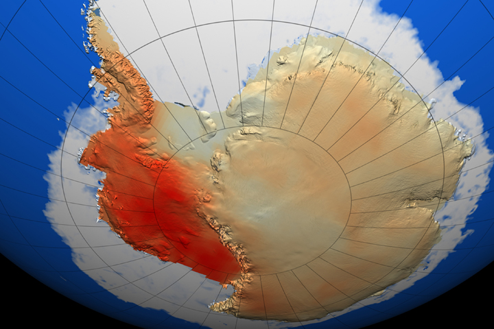 Analysis of weather station and satellite data, showing the continent-wide warming trend from 1957 through 2006.